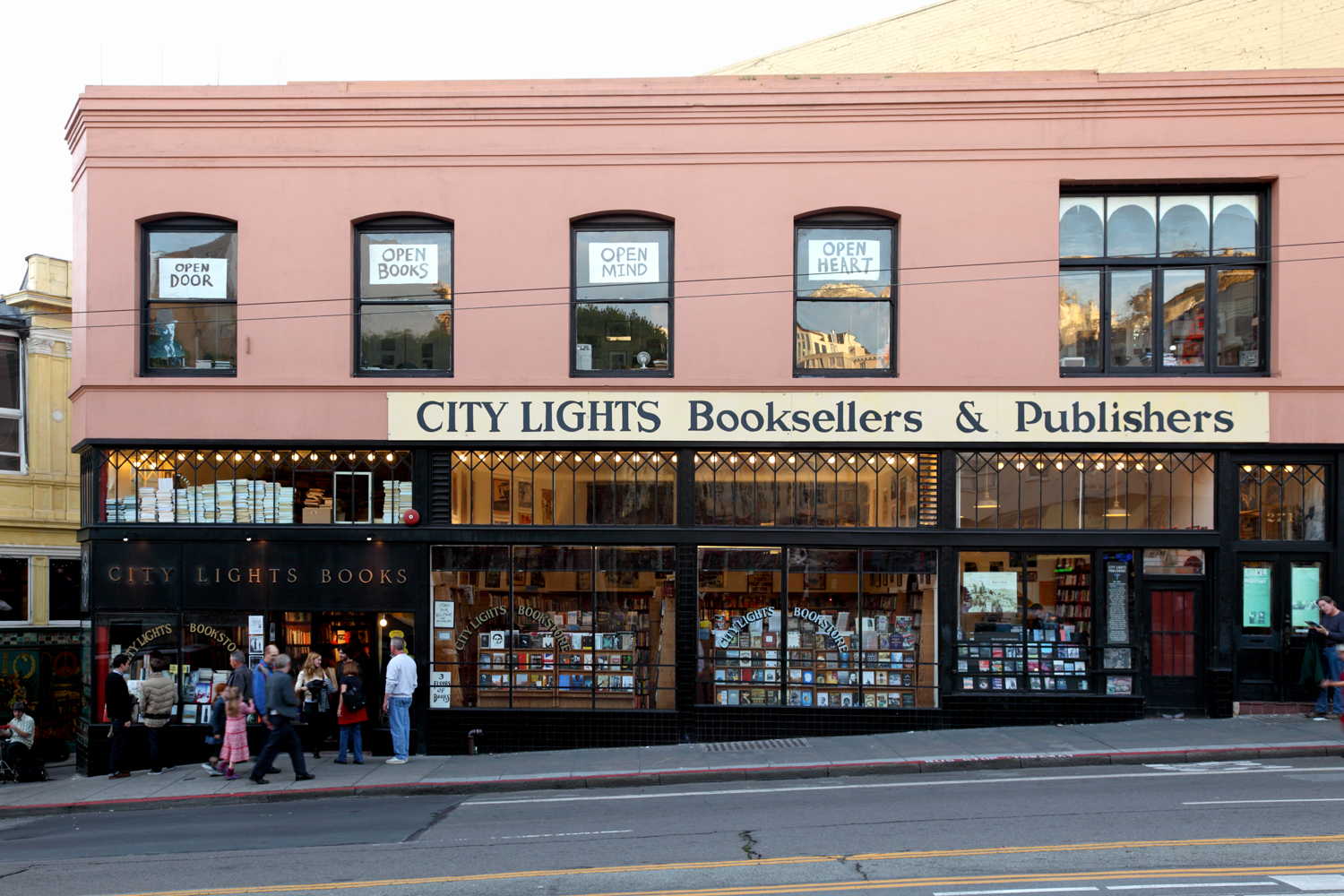 City Lights Bookstore on Columbus Avenue in San Francisco